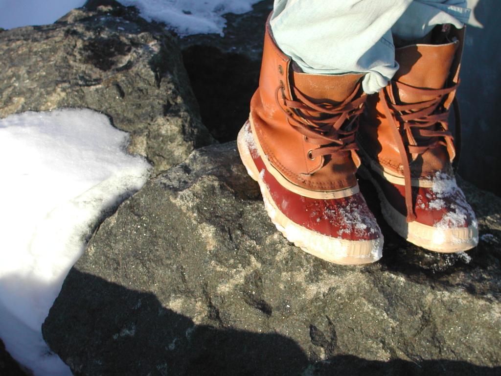 Shoreline, Lake Superior, Duluth, Minnesota